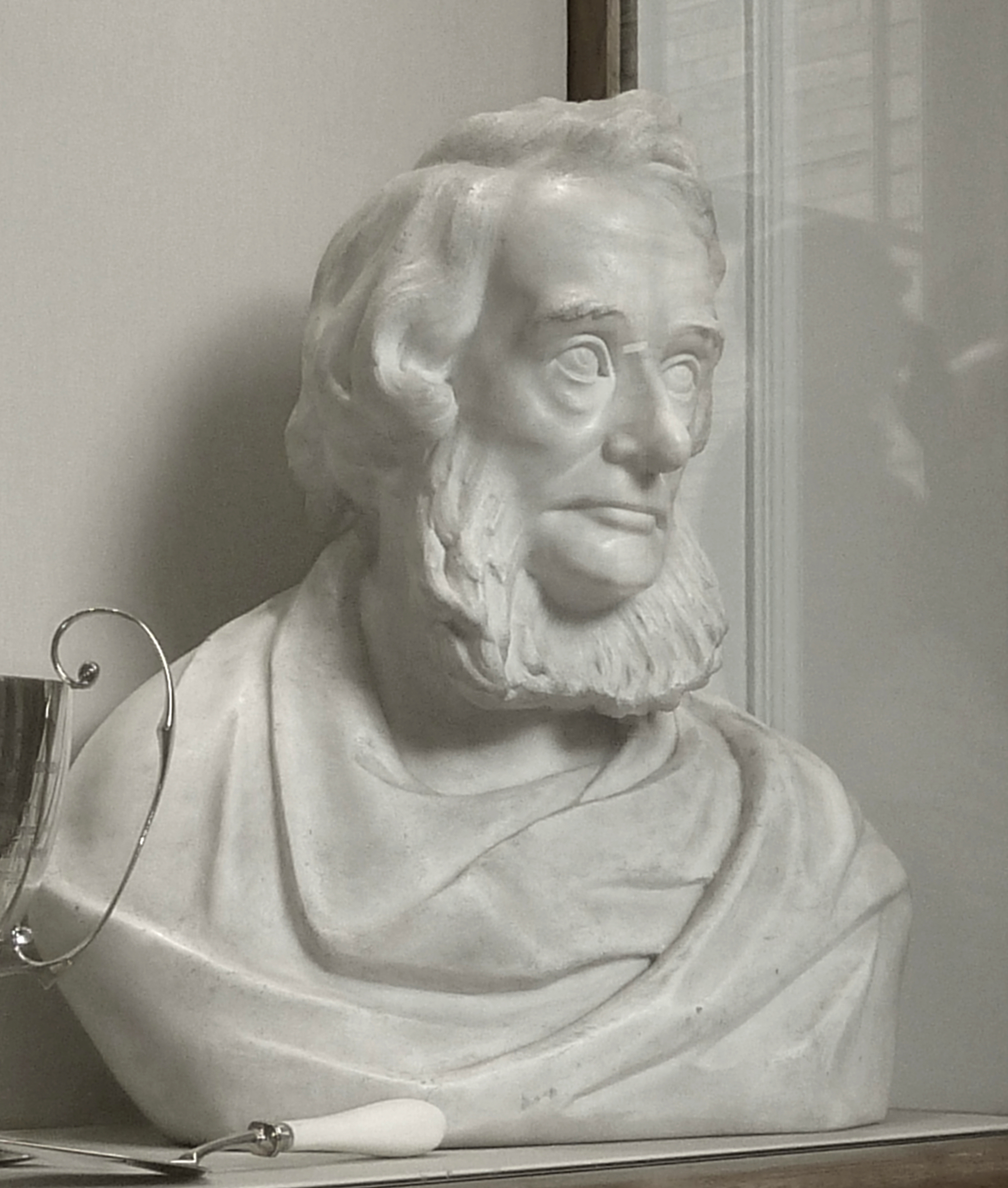 1871 bust of Henry Richardson, JP, (1798-1875), first Mayor of Barnsley. It was carved by Benjamin Payler of Leeds (1841-1907). As of 2017 the bust is in a glass case at Barnsley Town Hall, South Yorkshire, England. Note: this photograph was taken through glass.